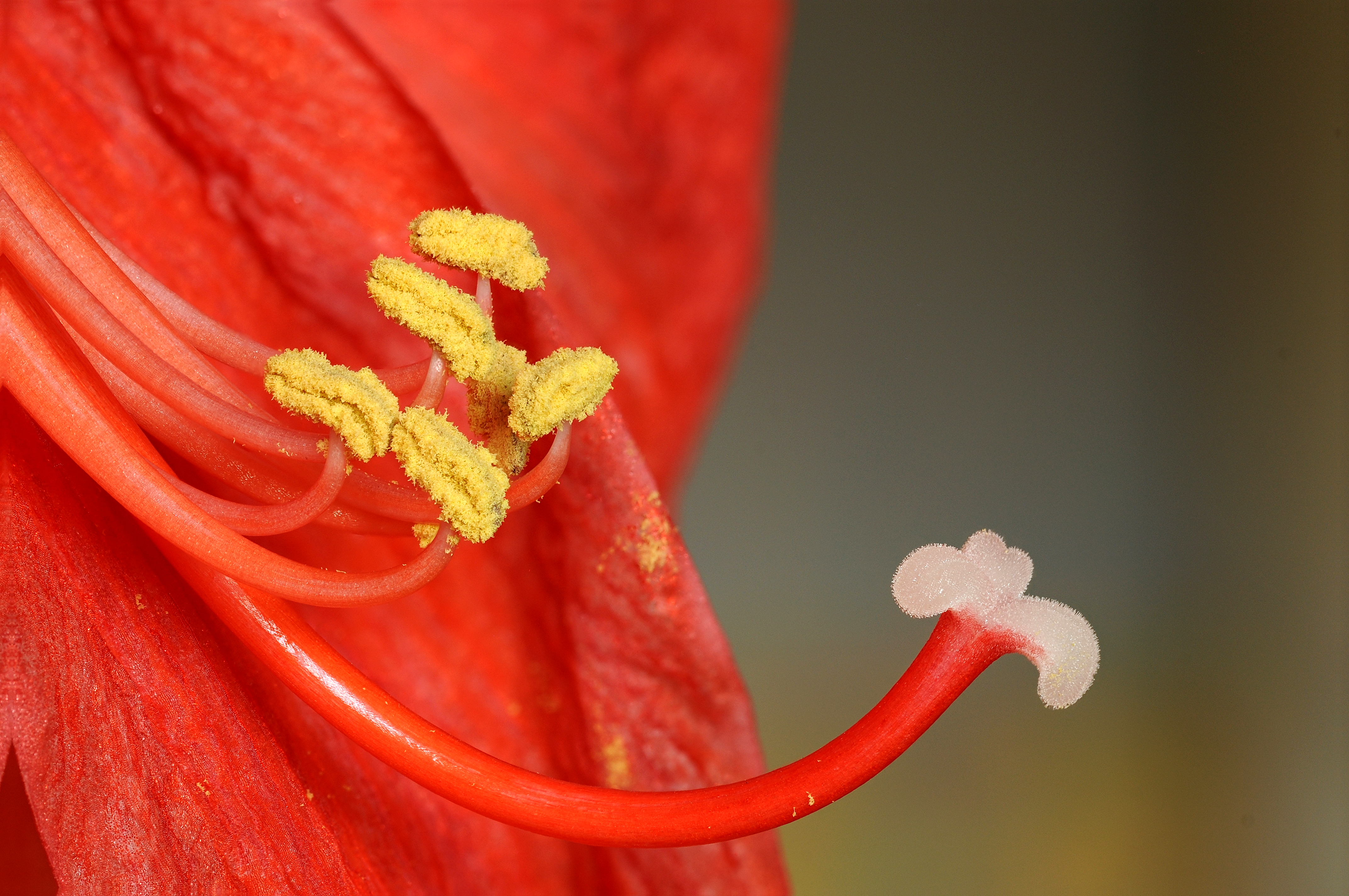 This photograph was taken with a Nikon D300 This image was created with CombineZP ( It was created out of 20 single images.). Focus stacking of 20 pictures (using CombineZP).Fleur d'Amaryllis (amaryllis sp.) (focus stacking). Image composée de 20 photos assemblées avec CombineZP.